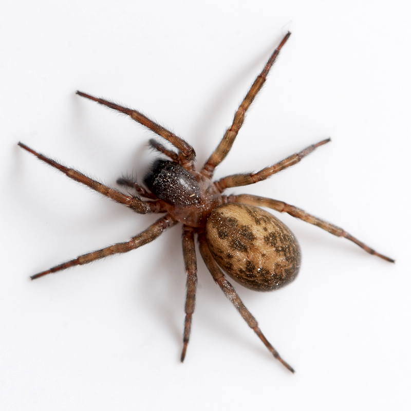 A female Lace Webbed Spider, Amaurobius similis. Taken with Nikon D80 + Nikkor 105mm f/2.8G IF-ED Micro VR II lens